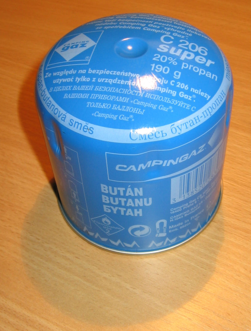 Non-refillable gas cartridge containing 80 % butane and 20 % propane for camping use